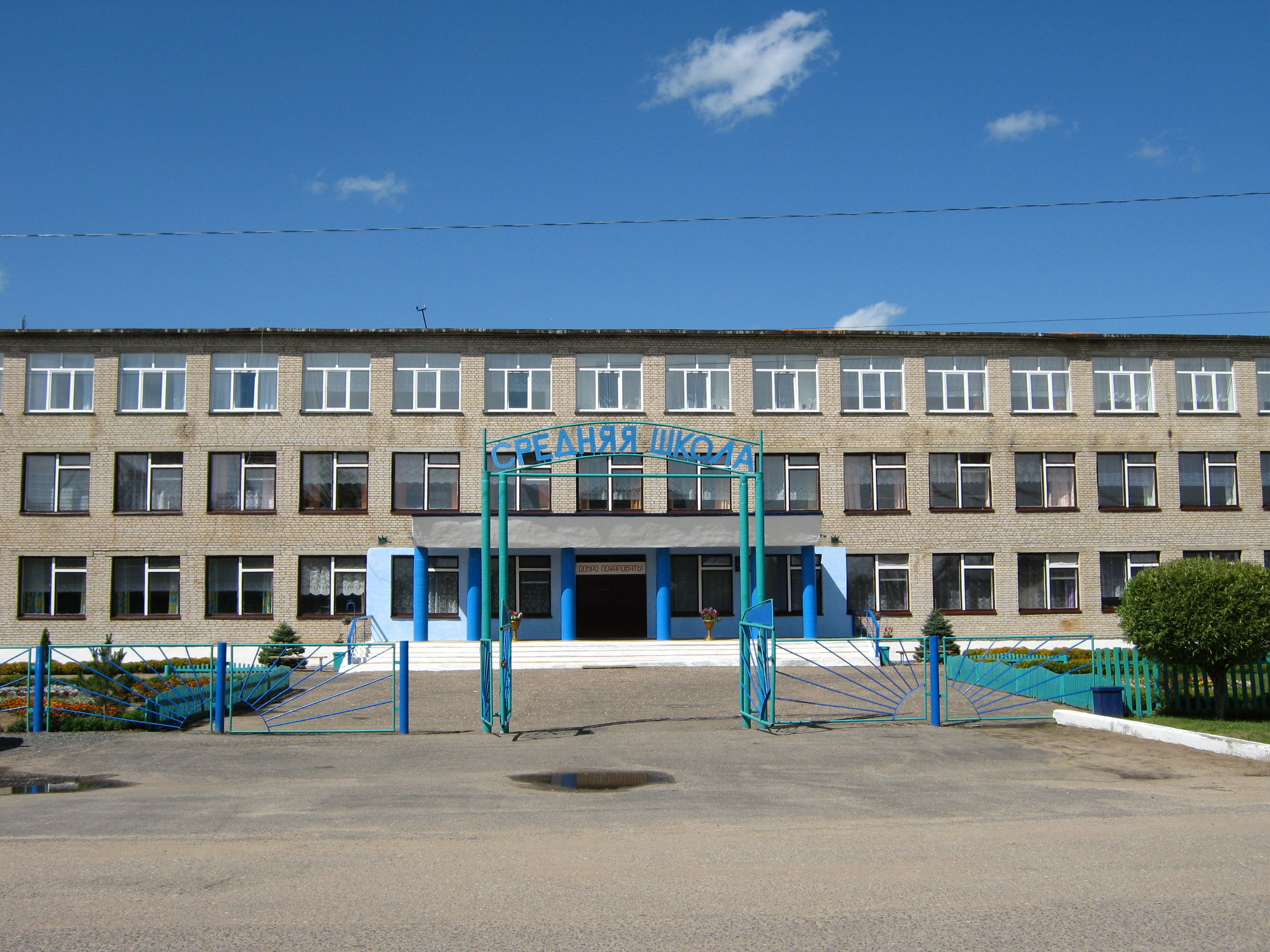 Entrance to secondary school in Krulieŭščyna